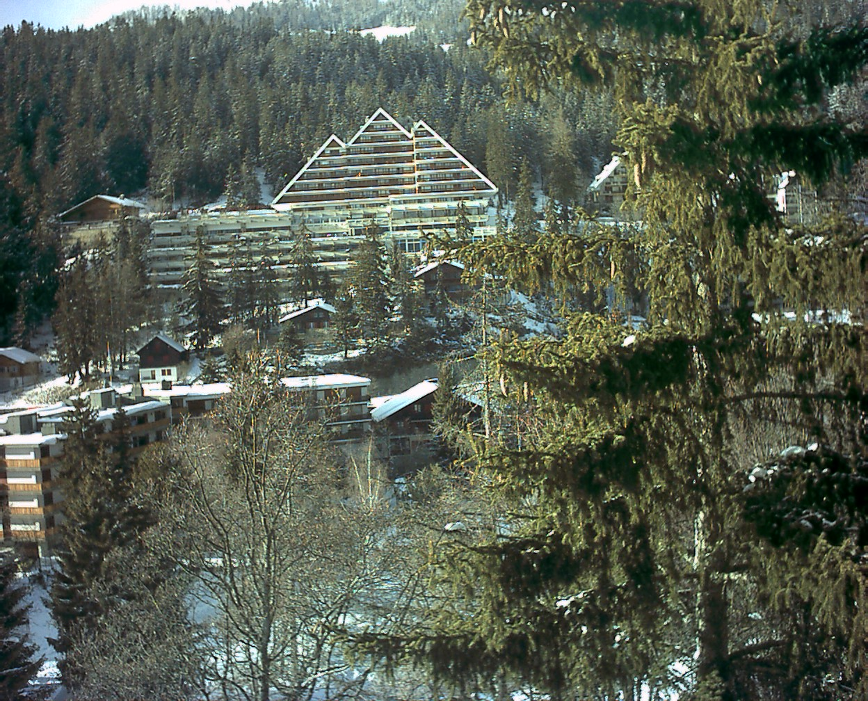 View of Montana, Valais, Switzerland